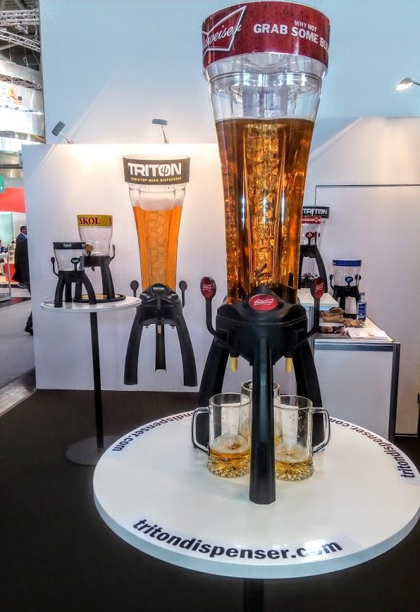 Triple-pour tabletop beer tower at the Drinktec exhibition in Munich, Germany.